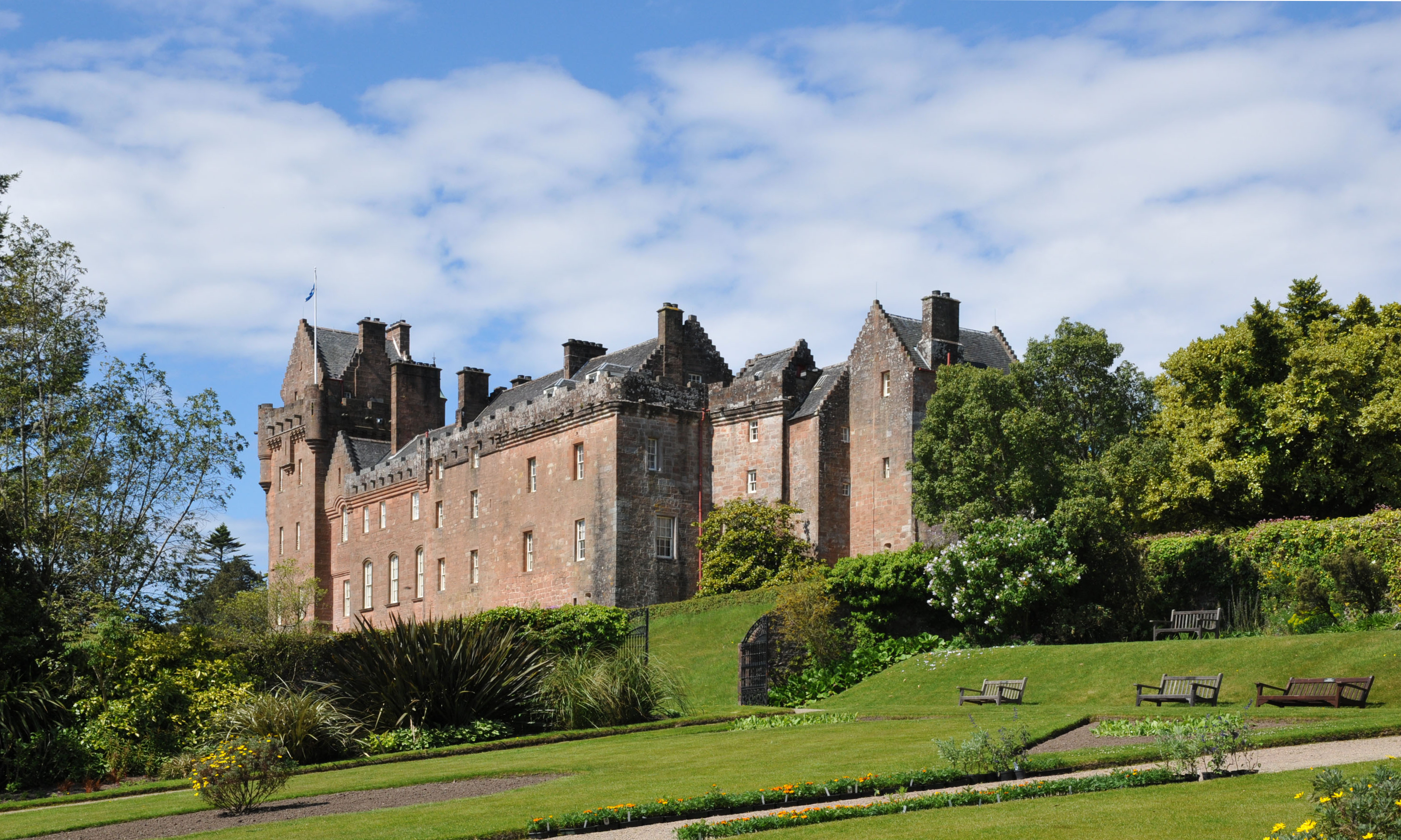 Brodick Castle on Arran, view from the walled garden to the east